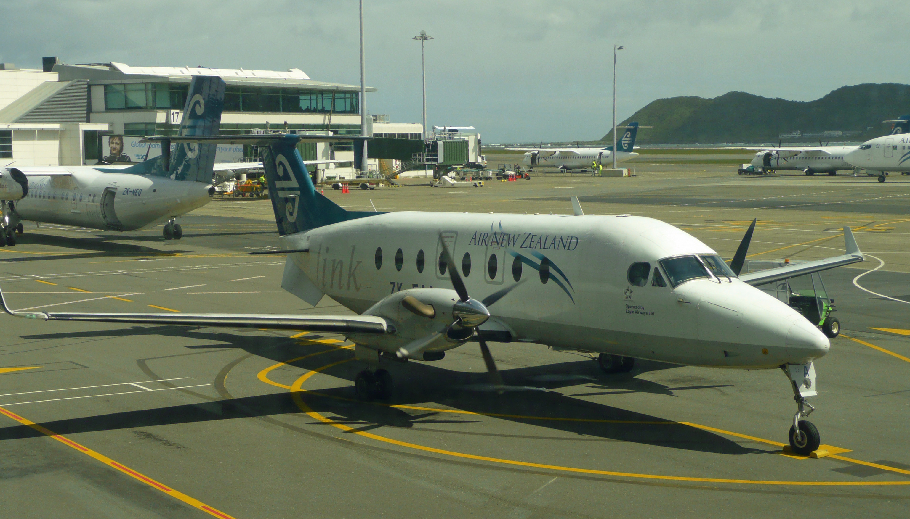 Air New Zealand Link (operated by Eagle Airways) Beechcraft 1900D (Registration: ZK-EAA) at Wellington International Airport 中文（香港）: 新西蘭航空 (由Eagle Airways 營運) Beechcraft 1900D 渦輪螺旋槳飛機 (註冊編號: ZK-EAA) 在威靈頓國際機場